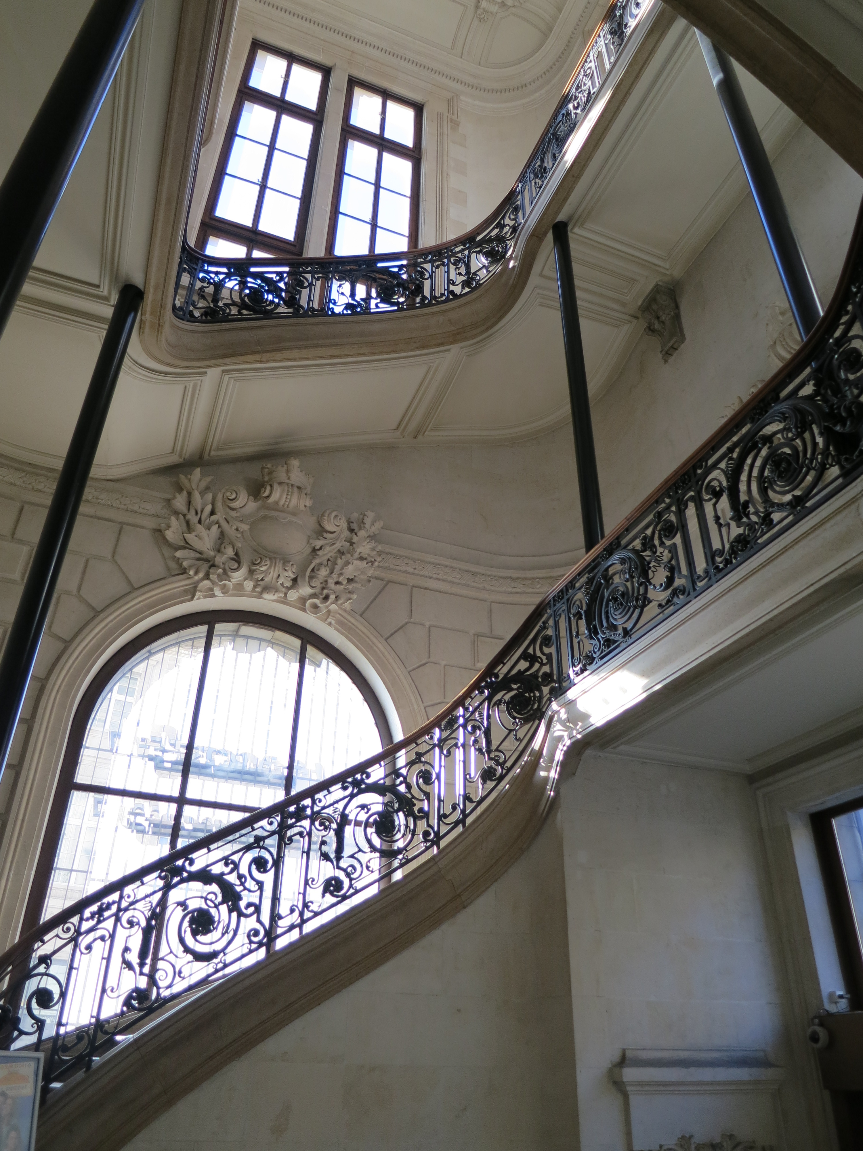 Hôtel des Postes inside